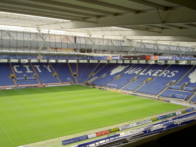 Inside Stadium, near to Leicester, Great Britain. Walkers Stadium